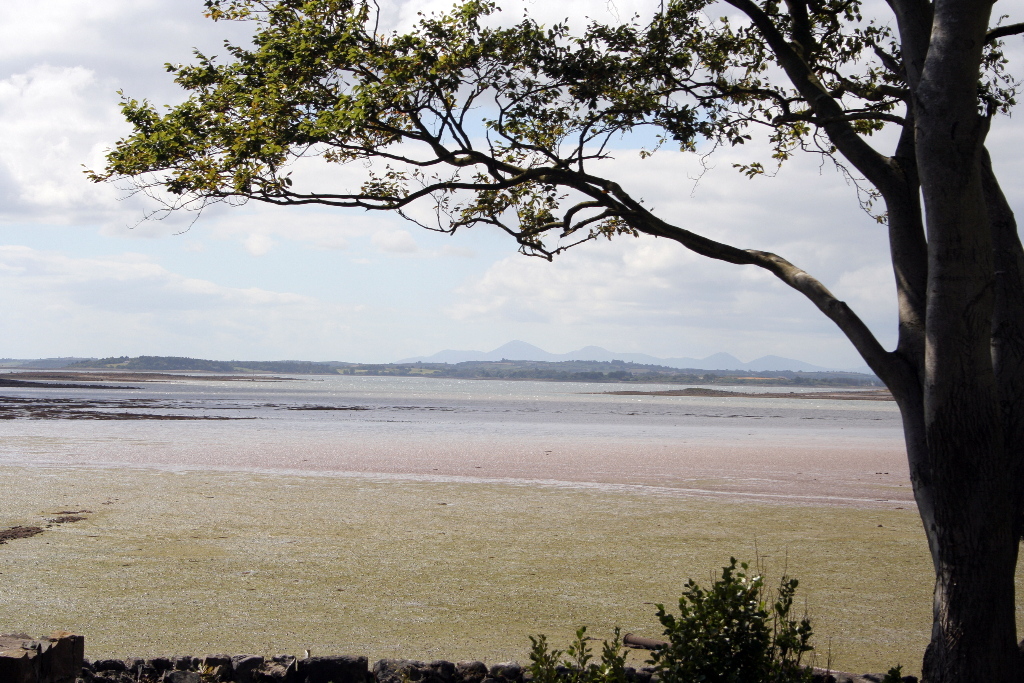 Strangford Lough